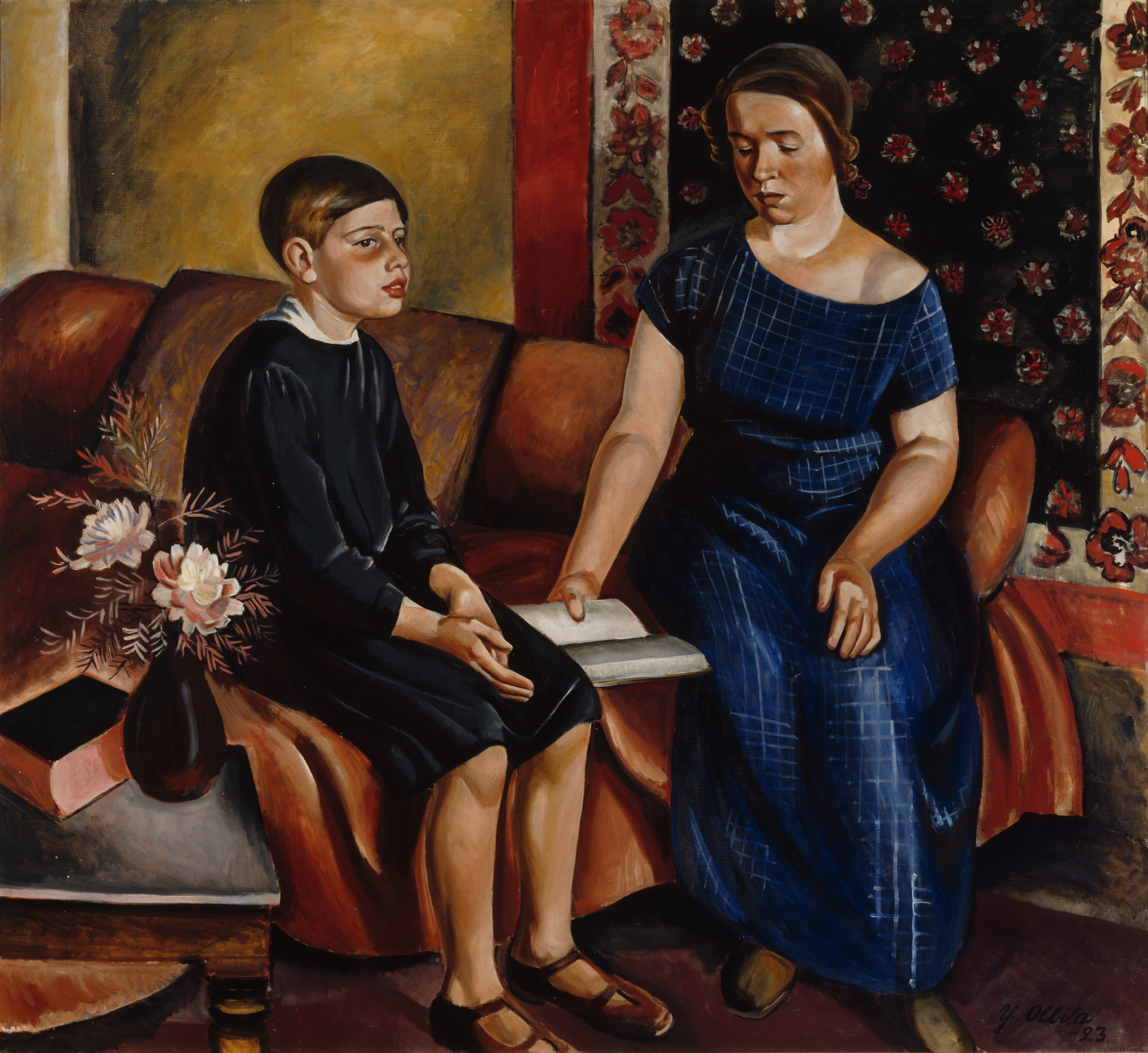 A schoolboy and his mother sitting on a sofa, the mother is holding a book.